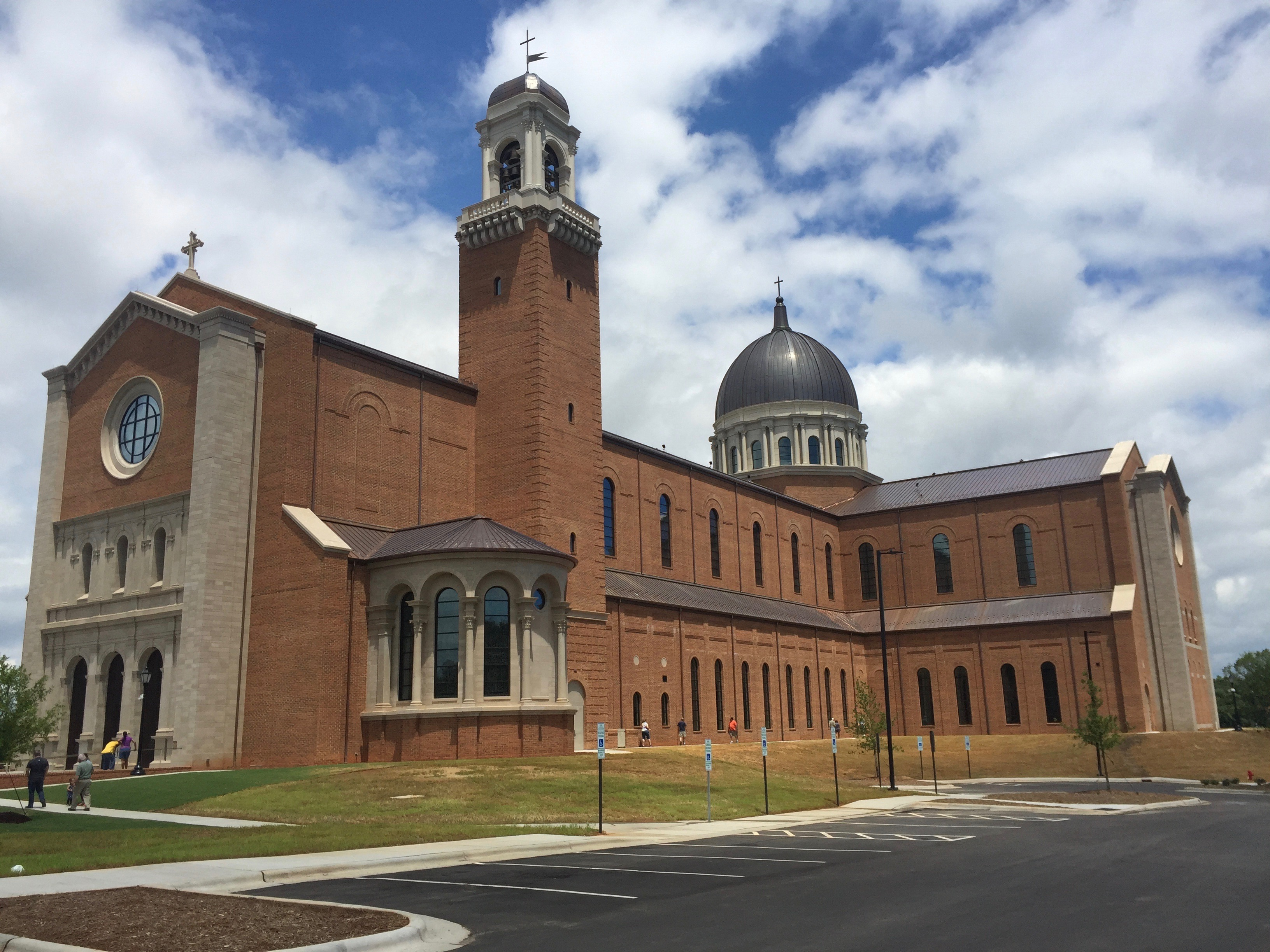 This Cathedral is located on a large plot of land in Southwest Raleigh. The Holy Name of Jesus Cathedral is the newest Catholic Cathedral in the world, designed by McCrery Architects, and having been dedicated on July 26, 2017, replacing the old and outgrown the 320-seat c. 1924 Sacred Heart Cathedral in downtown. Constructed in a Renaissance style with a dome, classical elements, and a large campanile-style belltower, the church appears to have been pulled straight out of Renaissance Italy rather than contemporary North Carolina, and was built to impress and awe. Seating 2000, the church is a big step up from the former Diocese Cathedral, and reflects how much the Catholic population of the state has grown in the last 100 years. It is a testament to the growth in wealth and population overall that North Carolina has experienced in that time frame as well.